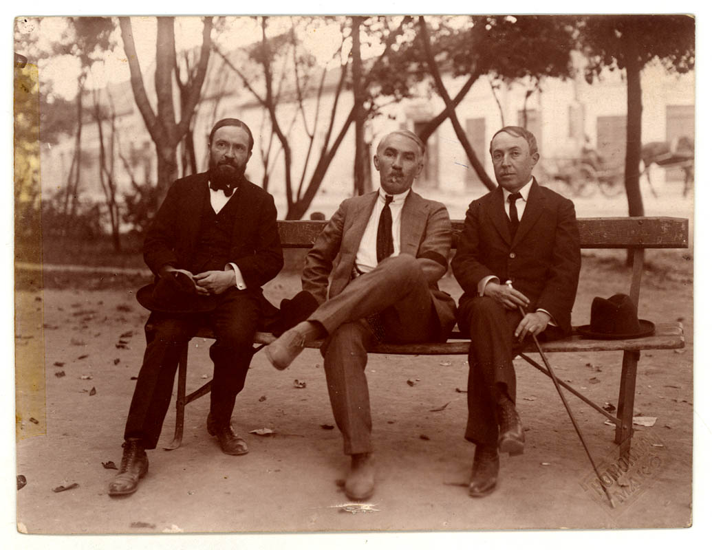 Gyula Juhász, Ferenc Móra and Ödön Réti in Makó. Photograph by Nándor Homonnai National Széchényi Library LocationBudapestCoordinates47° 29′ 53.34″ N, 19° 02′ 14.4″ E Established1802Web page control : Q1063819 VIAF: 157919295 ISNI: 0000 0001 1781 8798 ULAN: 500306655 LCCN: n79076057 NLA: 35722893 WorldCat institution QS:P195,Q1063819